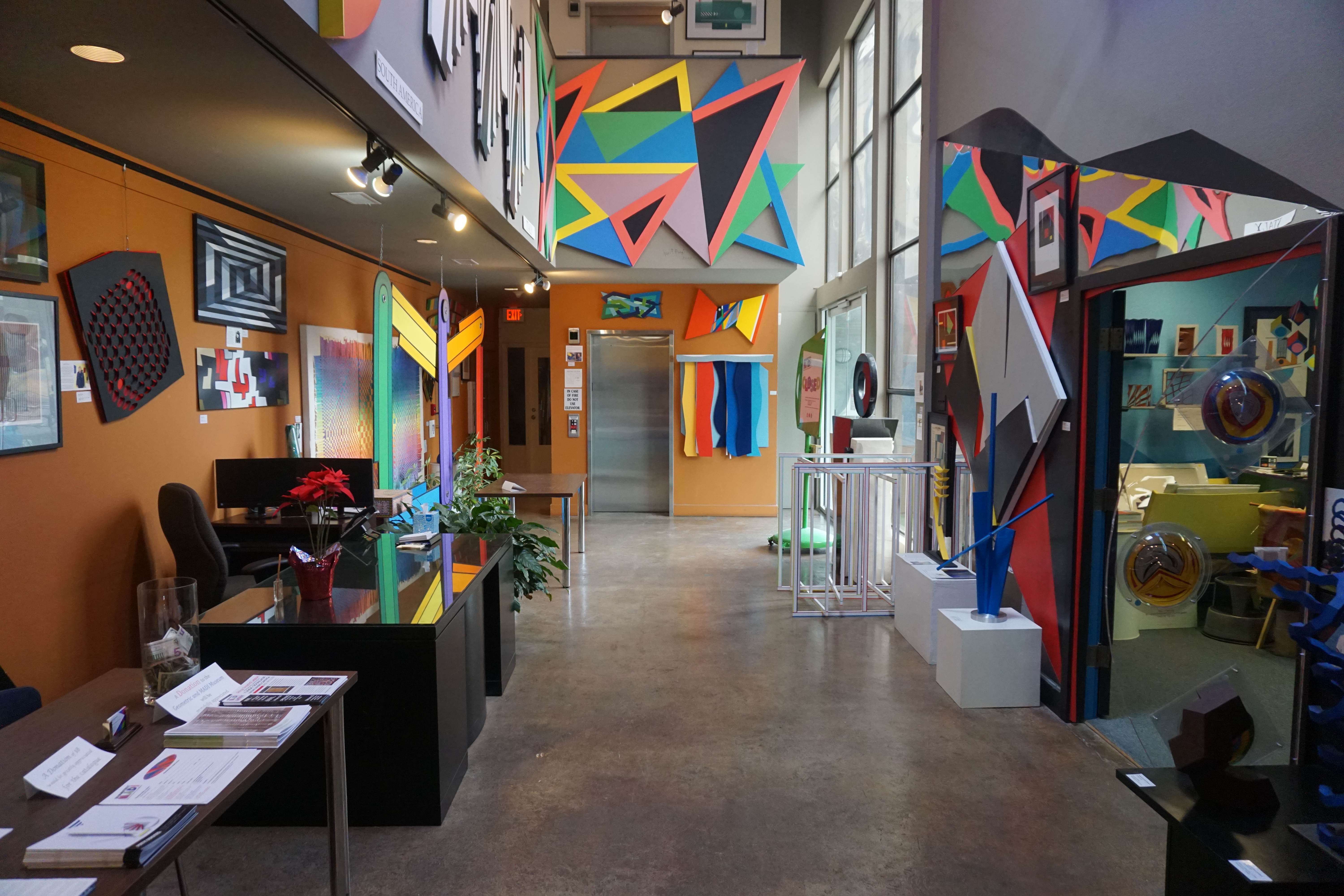 The interior of the Museum of Geometric and MADI Art in Dallas, Texas (United States).